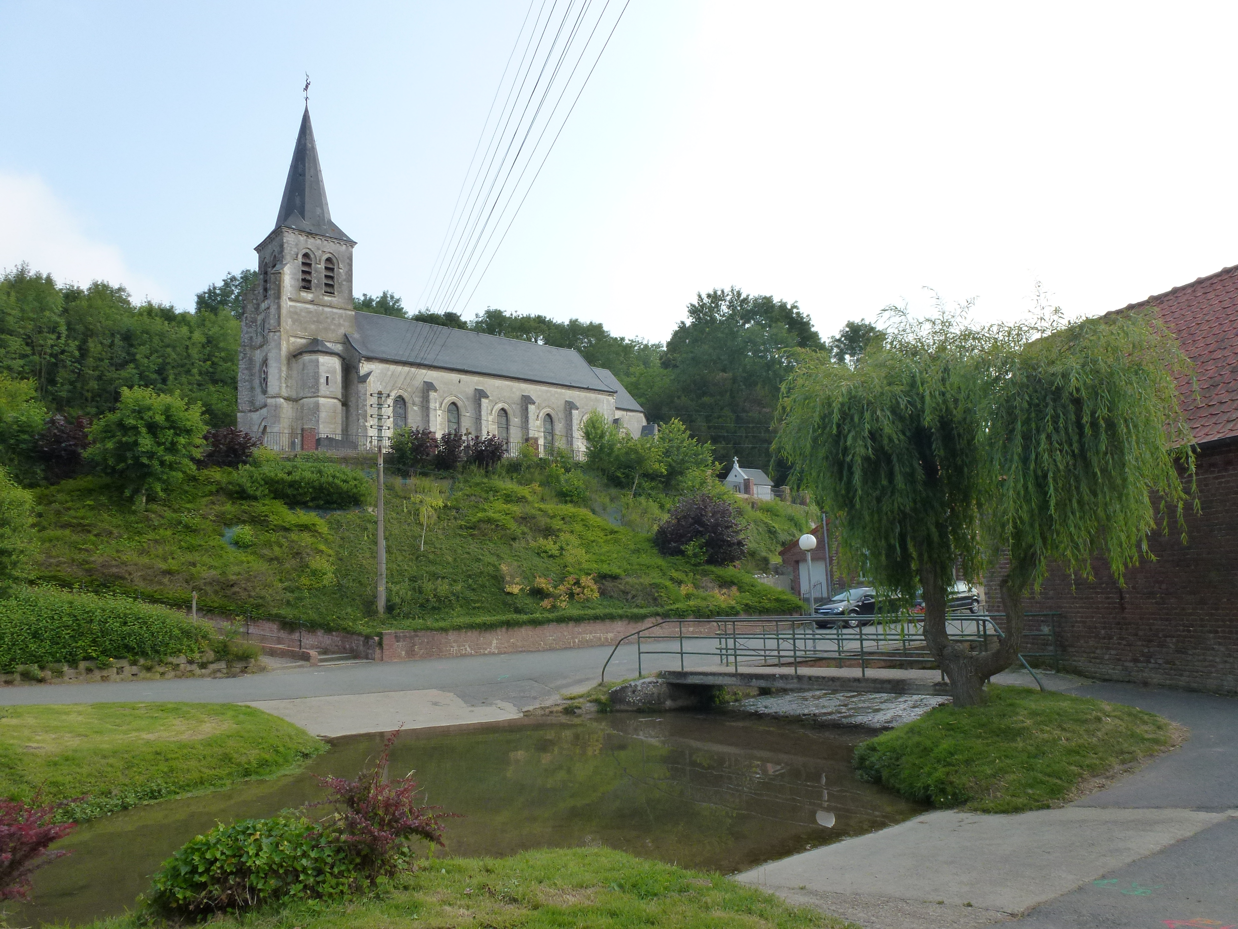 Enquin-les-Mines (Pas-de-Calais, Fr) église d'Enquin et gué de la Laquette